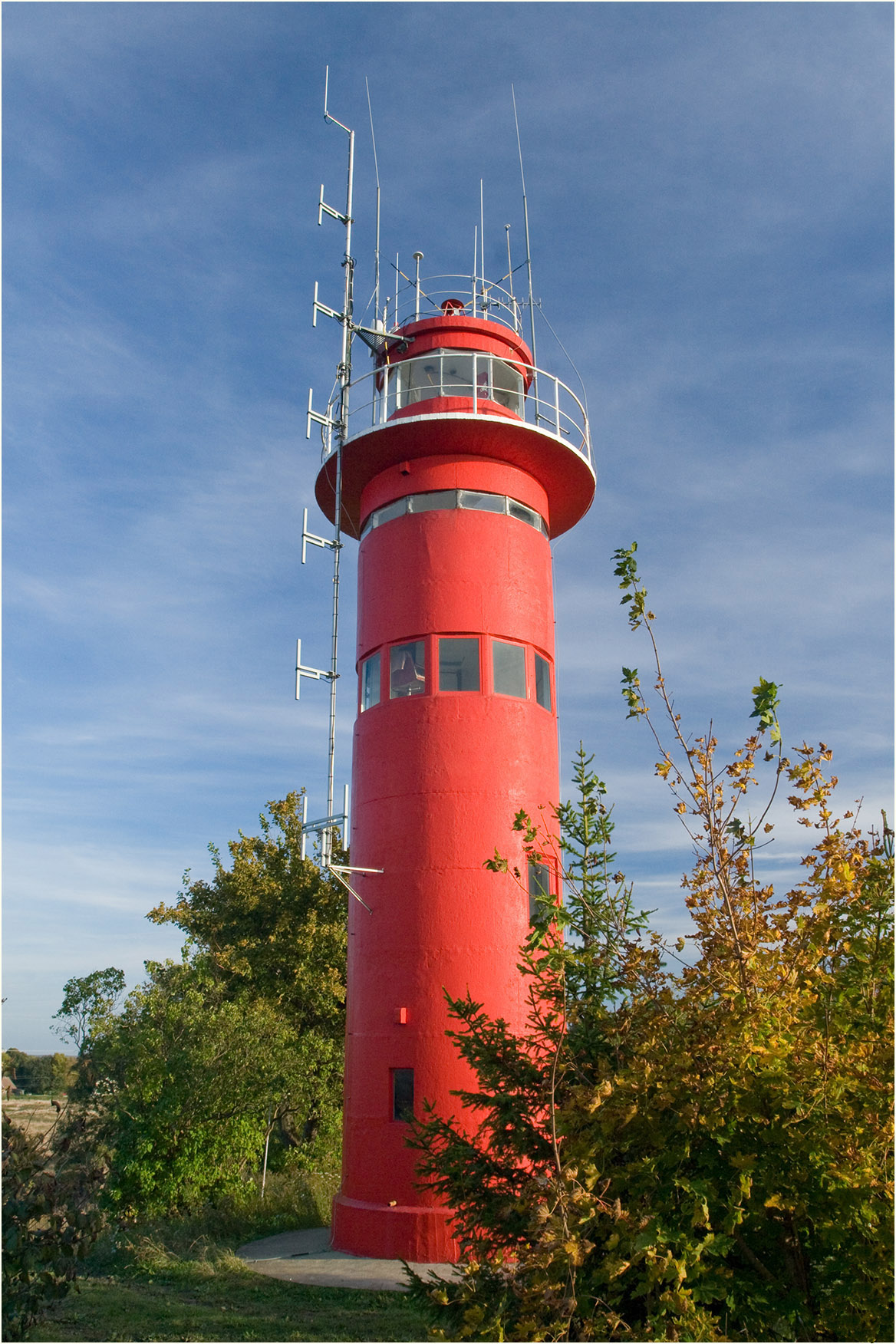 Viimsi rear light beacon